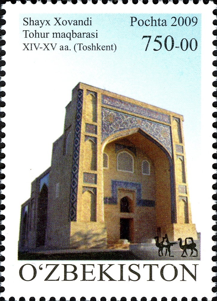 Stamps of Uzbekistan, 2009